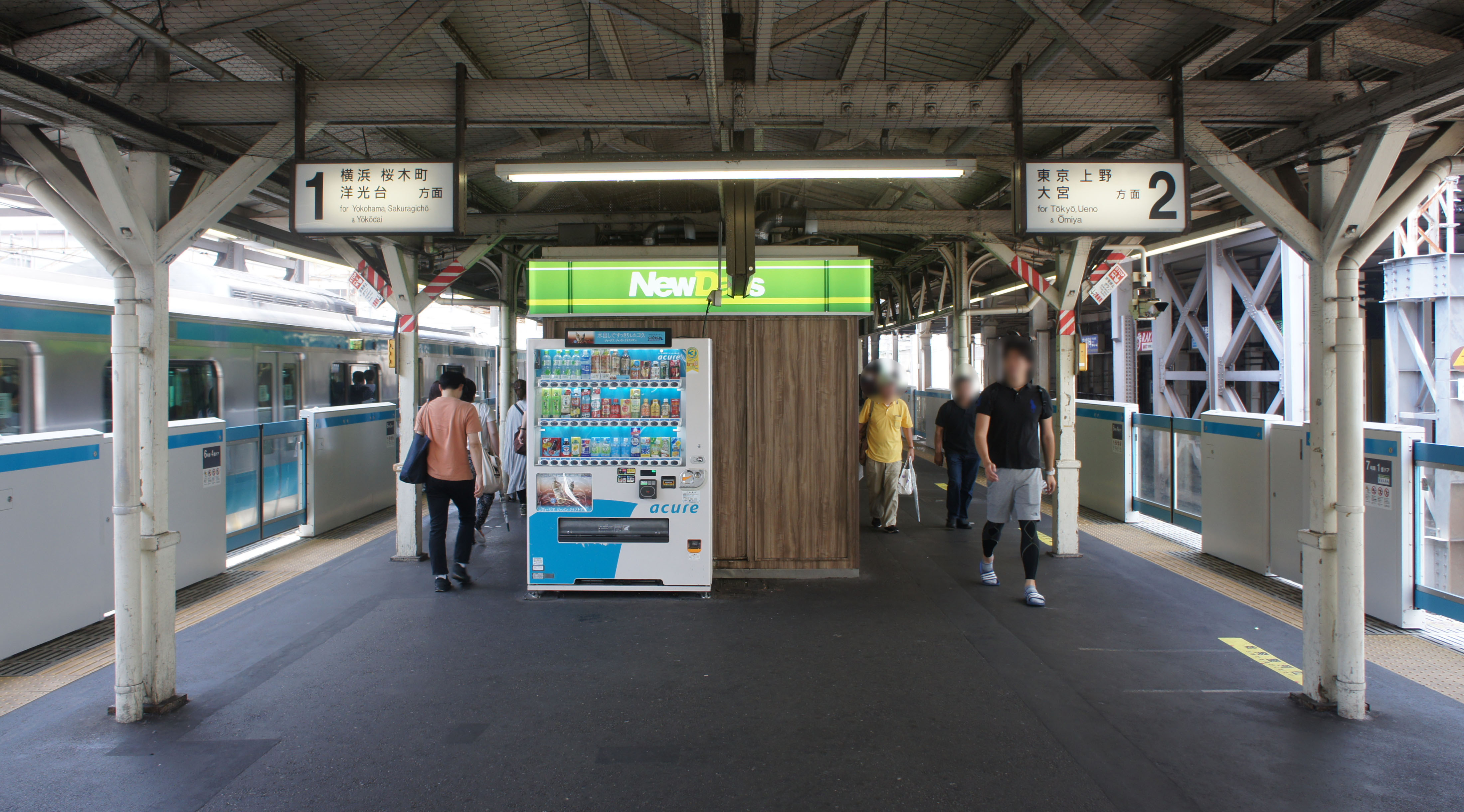 Platform 1・2 (Keihin-Tohoku Line) of JR Tsurumi Station